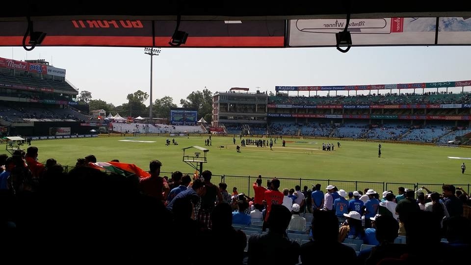 View from the East Stand of Feroz Shah Kotla during toss in Indian Cricket Team match.